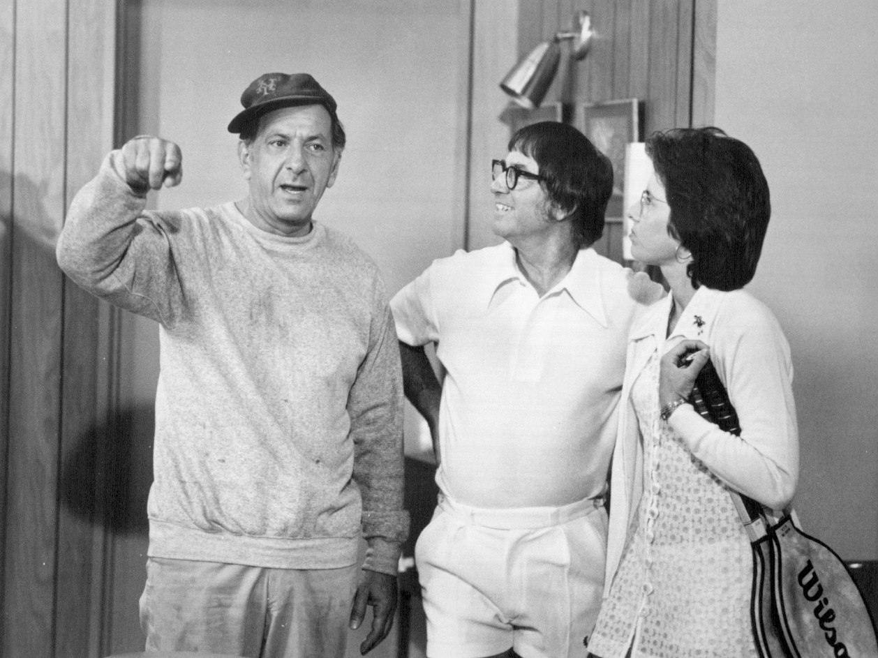 Photo of Jack Klugman, Bobby Riggs and Billie Jean King in an episode of the television series The Odd Couple. The item has no copyright markings on it as can be seen in the links above.